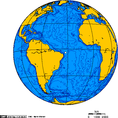 Orthographic projection centred over Fernando de Noronha